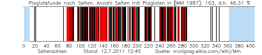 Example barcode just for illustration of the visualization scheme indicating pages containing plagiarism. Legend not included. Light blue indicates the page range not considered in the calculation of the percentage. Black lines indicate pages with plagiarized content. Dark red: more than 50% plagiarism in page, bright red: more than 75%.